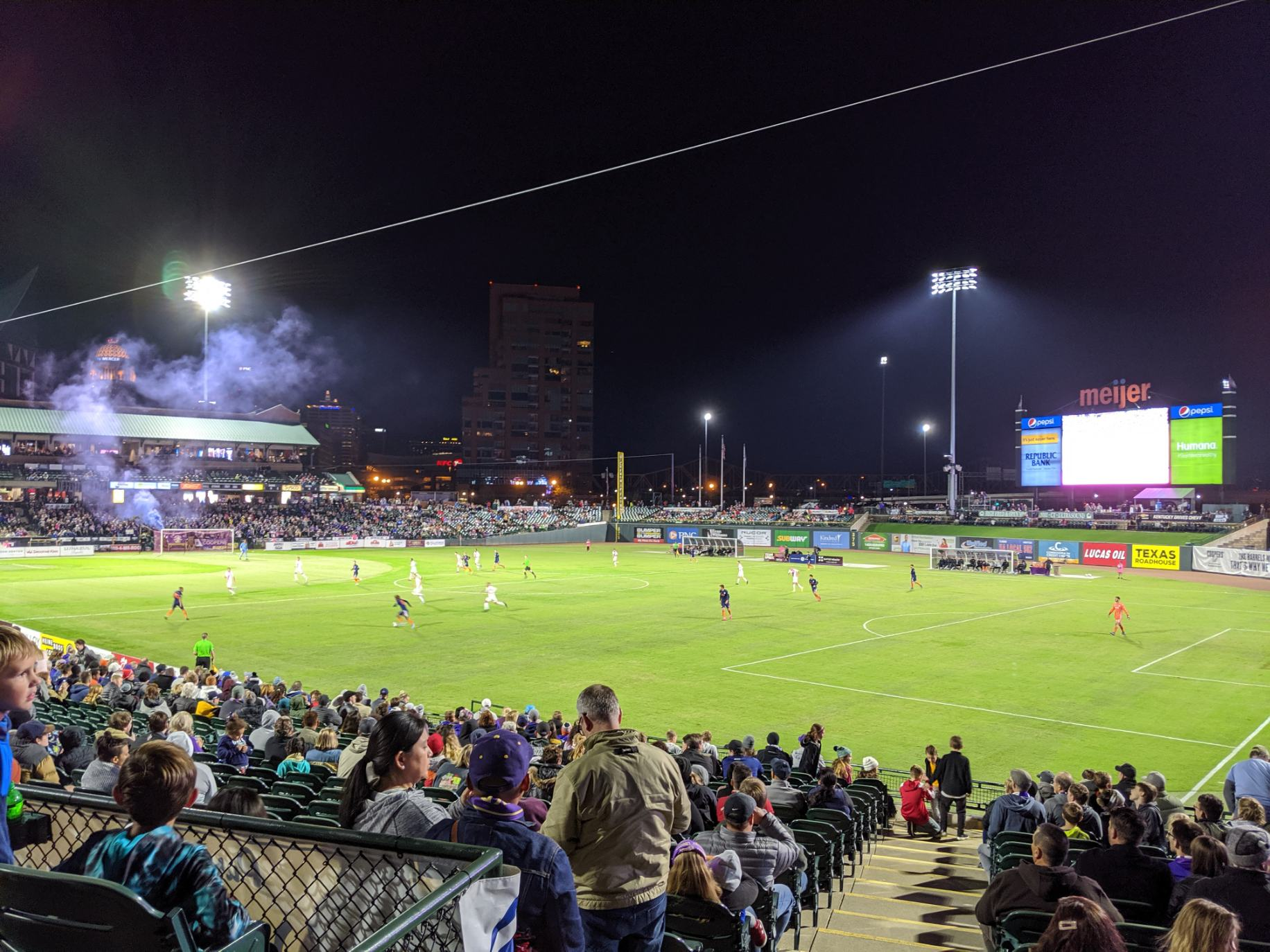 The Final Louisville City FC match at Slugger Field against the Swope Park Rangers. Final score 8–3. The first time Louisville scored more than 6 goals in a league match